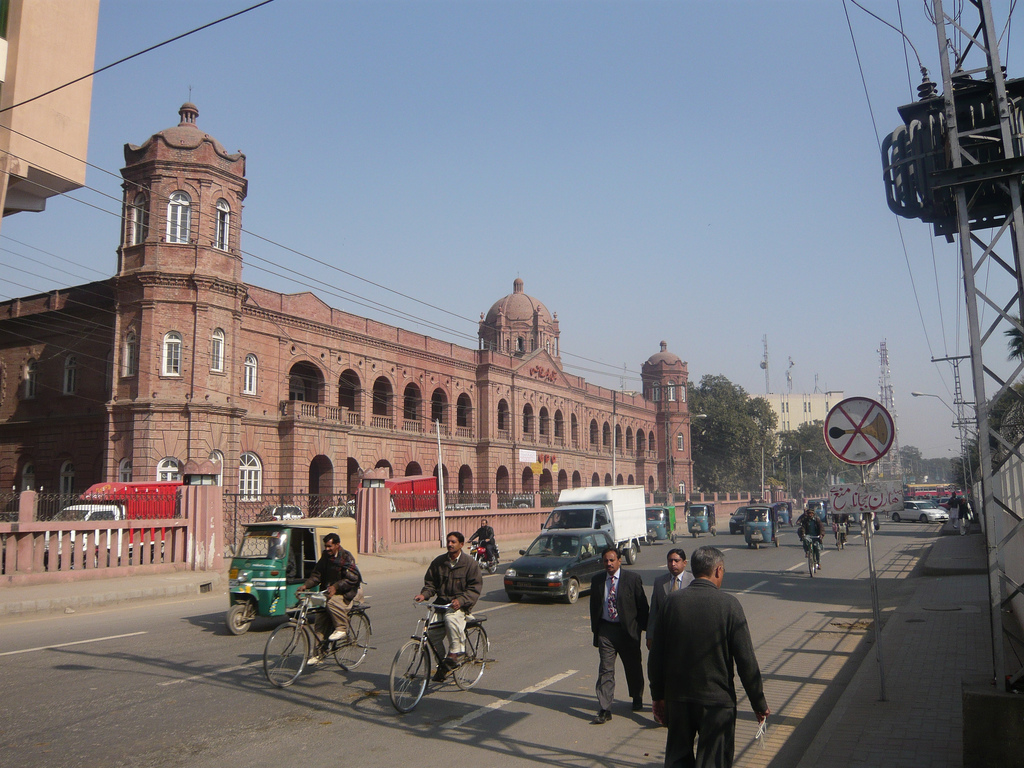 General Post Office, Lahore This is a photo of a monument in Pakistan identified as the PB-P-66